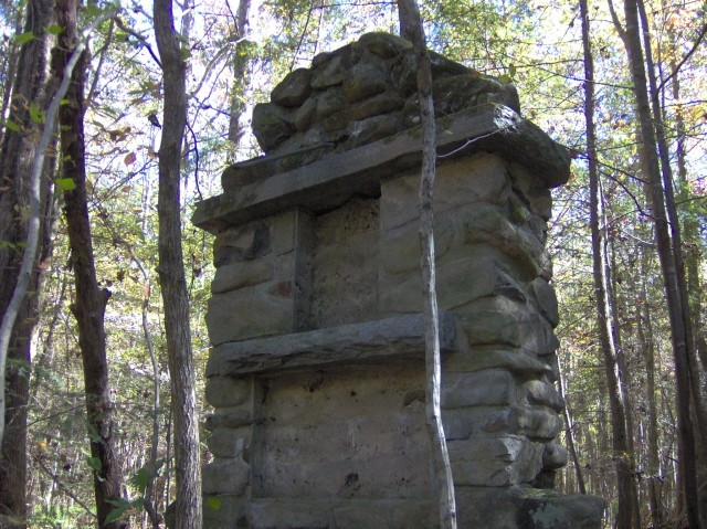 Ruins at the site of the Civilian Conservation Corps Camp in the Sugarlands, GSMNP, in East Tennessee. These ruins are found along a bend on the Old Sugarlands Trail, just east of the US-441. The camp housed conscientious objectors during World War II. Along with the CCC, they built many of the trails in the area.